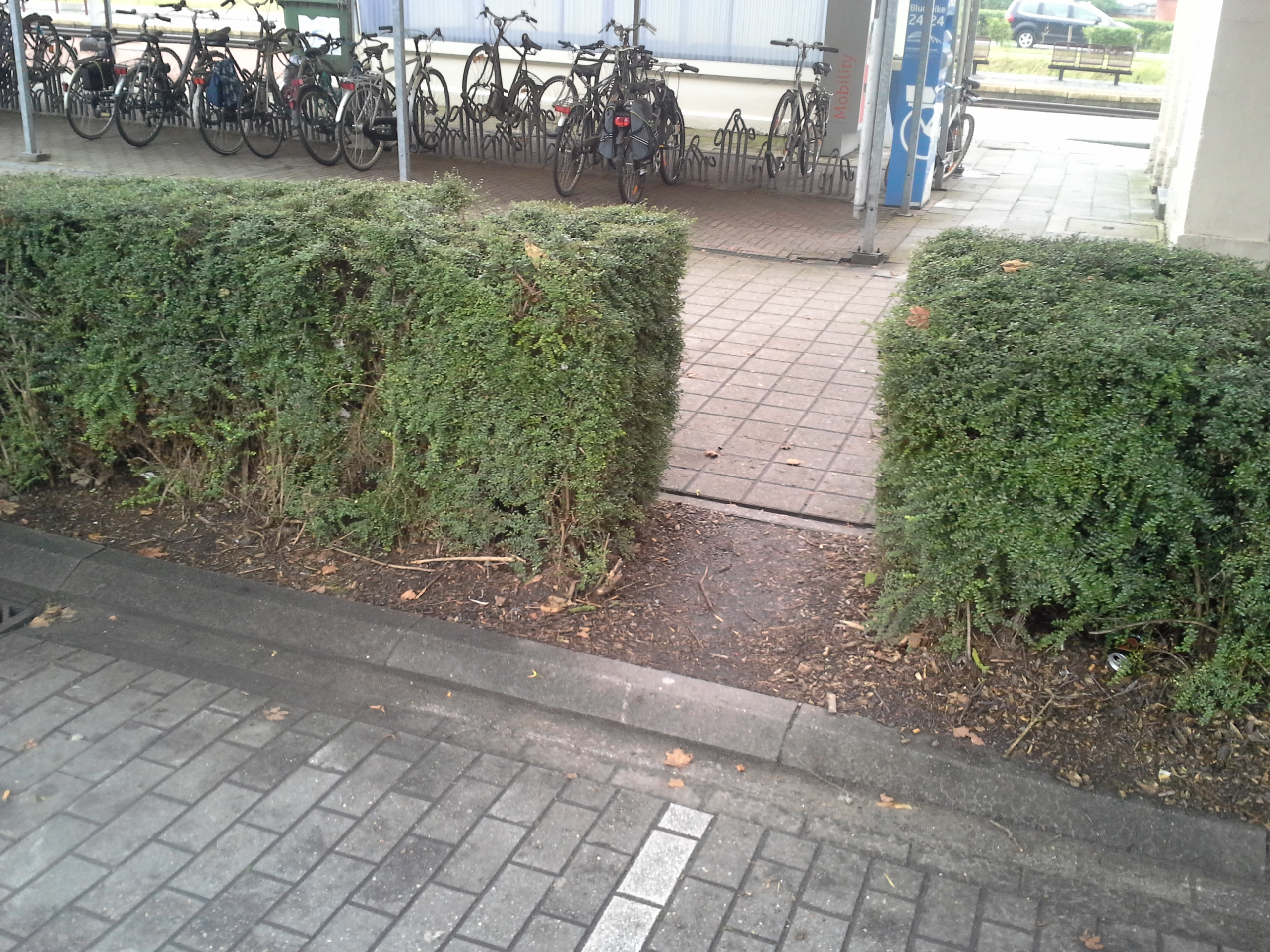 Desire path train station Asse Belgium